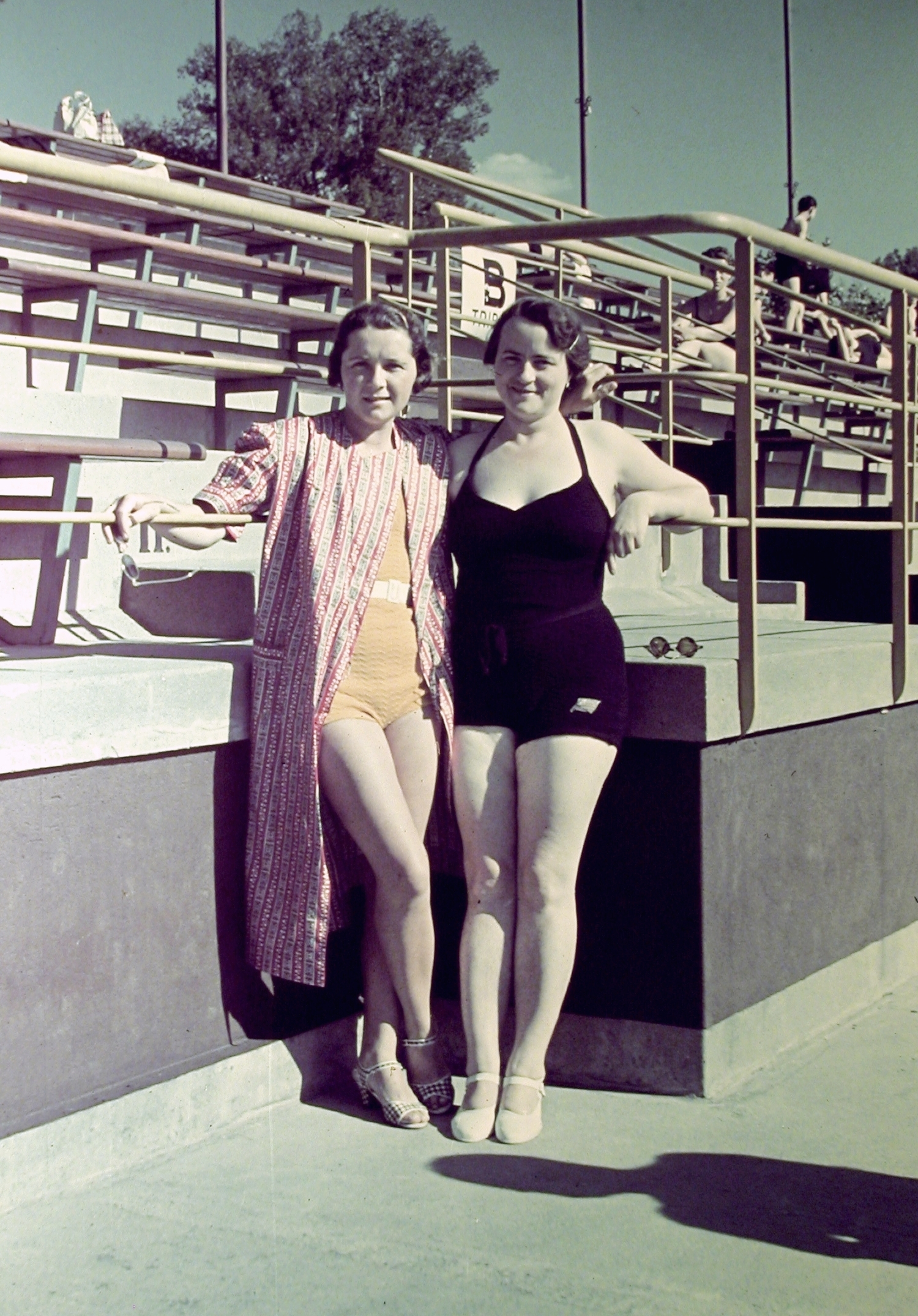 Budapest 1938. Location: Hungary, Budapest, Margit Islands Tags: colorful, swimming pool, bathing suit, double portrait, women, auditorium, bathrobe Title: Hajós Alfréd Nemzeti Sportuszoda.